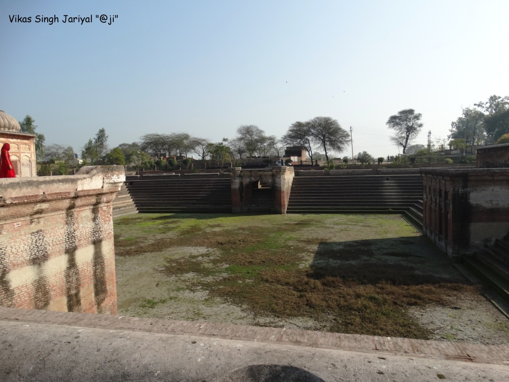 Pul kanjari